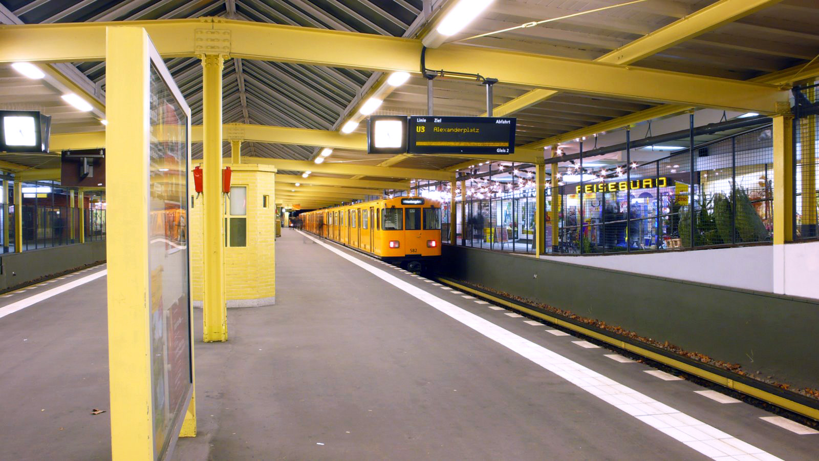 Onkel Toms Huette subway